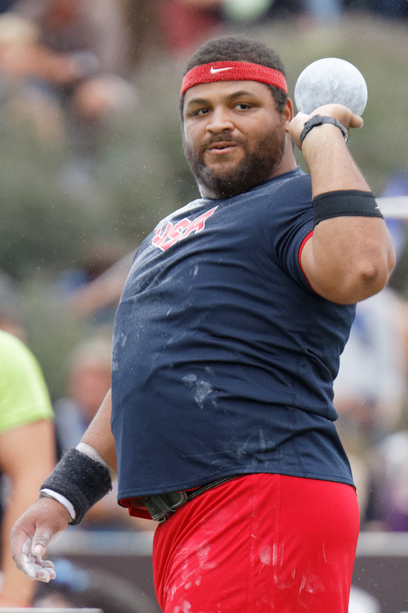 DécaNation 2014. Shot put. Reese Hoffa.